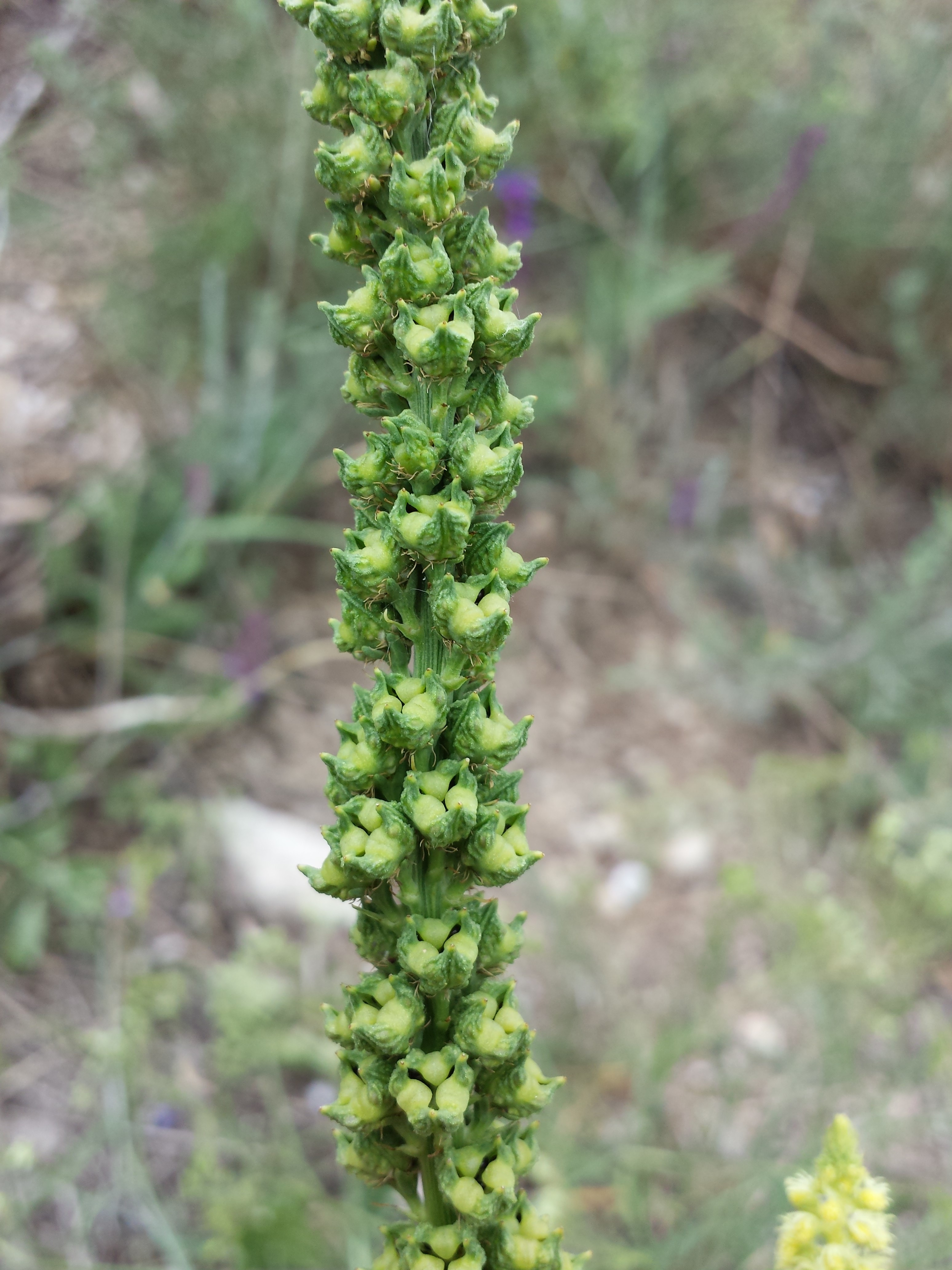 Infructescence Taxon: Reseda luteola (sensu Fischer et al. EfÖLS 2008 ISBN 978-3-85474-187-9; det. W. Adler 2014-06-21) Location: Staatzer Klippe, district Mistelbach, Lower Austria - ca. 300 m a.s.l. Habitat: steppe over limestone This media shows the natural monument in Lower Austria with the ID MI-052.